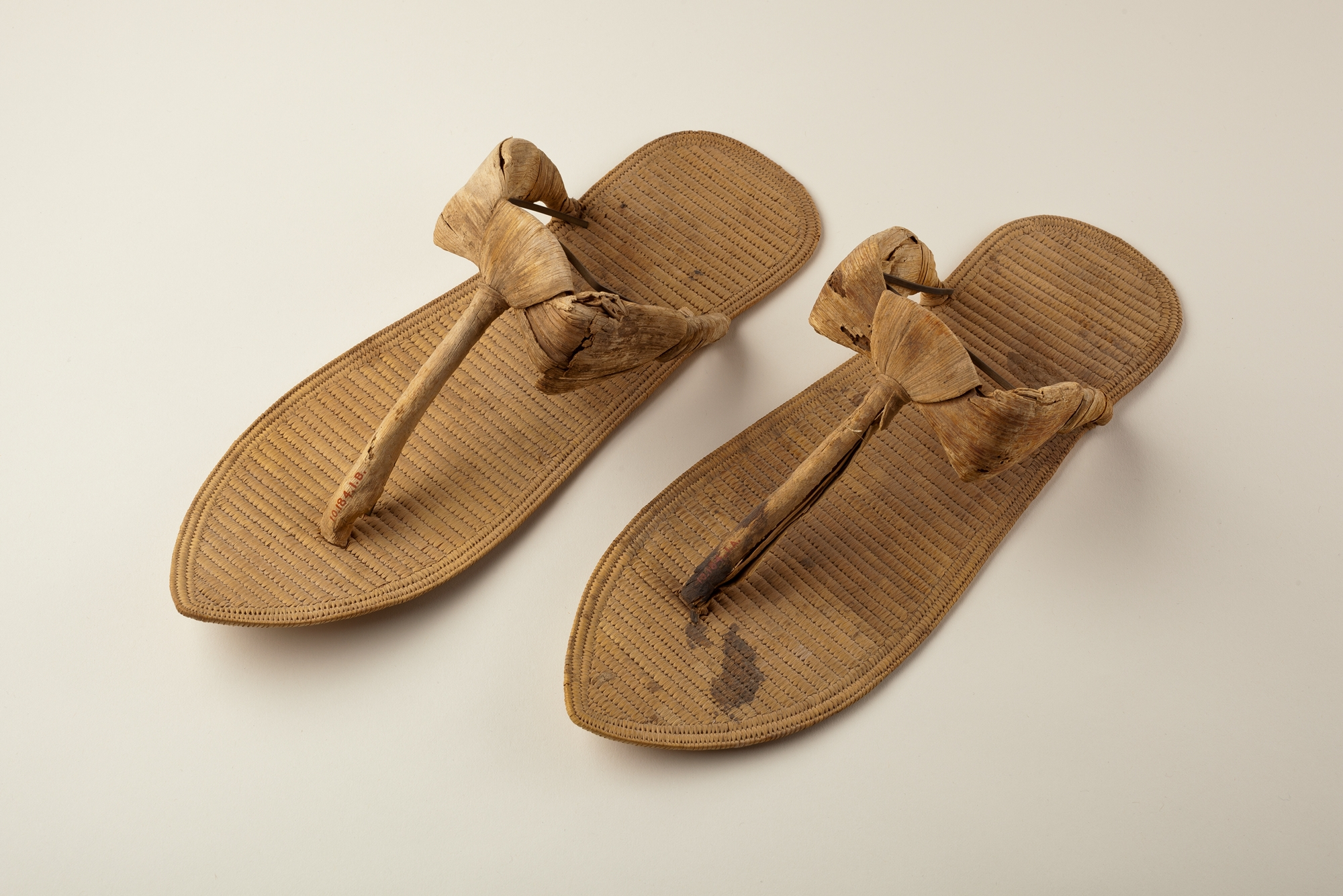 Sandals, Yuya & Tjuyu